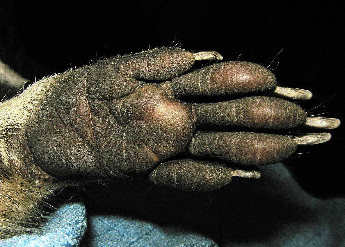 Close-up of a front paw of the raccoon Molly.